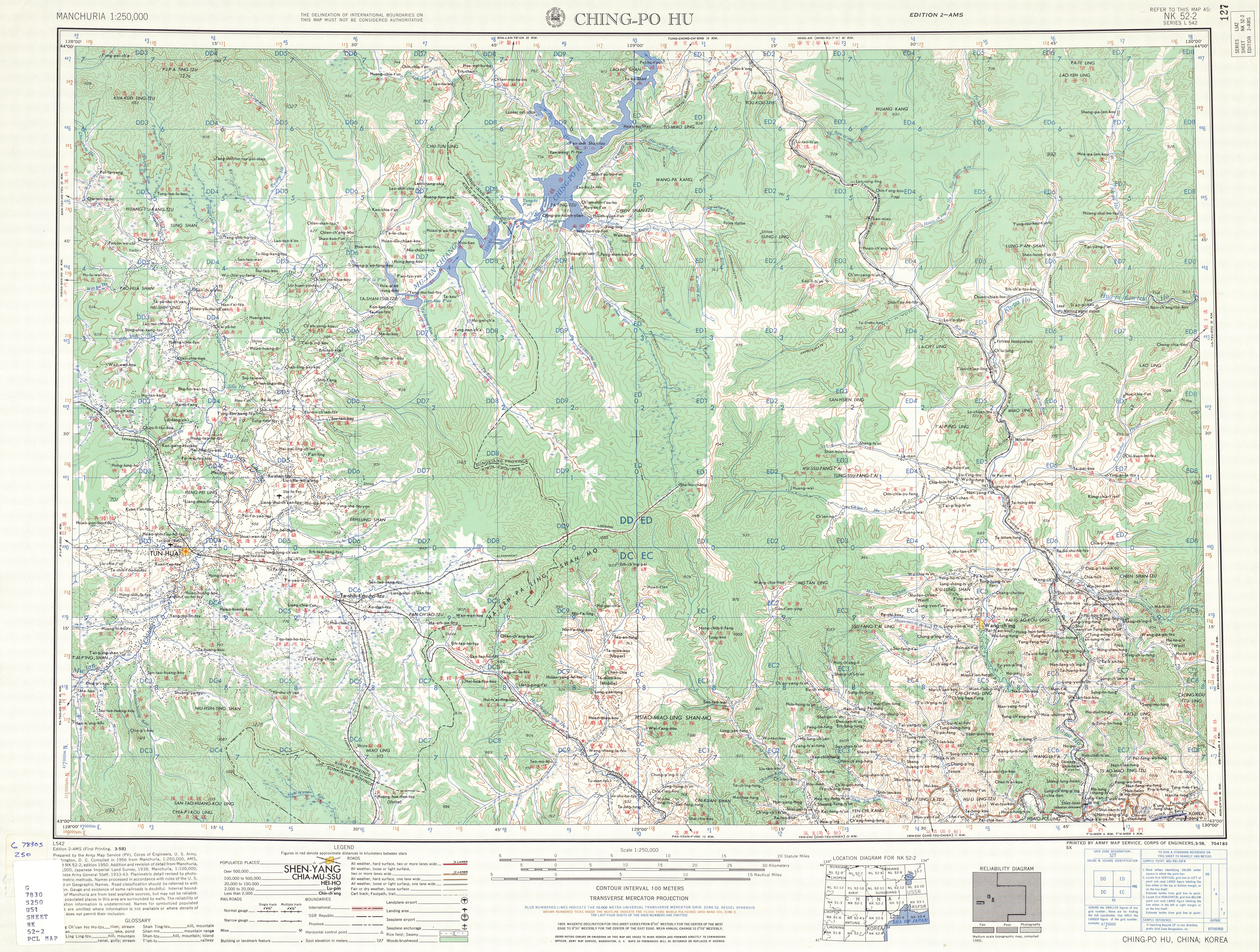 Manchuria AMS Topographic Maps